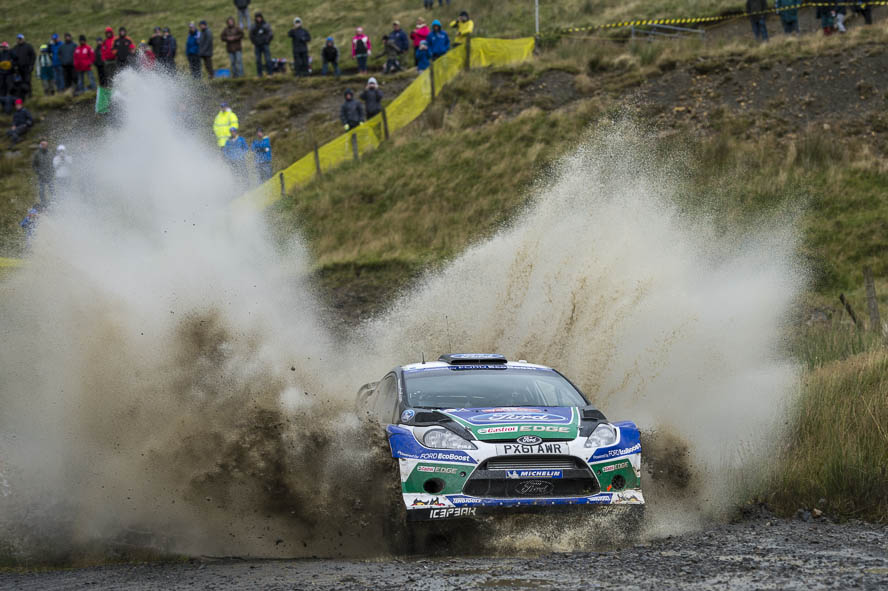 Wales Rally Great Britain 2012 Ford Fiesta RS WRC,Ford WRT,Ford World Rally Team,Hafren Sweet Lamb 1,Jari-Matti Latvala,Miikka Anttila,Motorsport,Rally,Rallye,SS2,WP2,WRC,Wales Rally GB